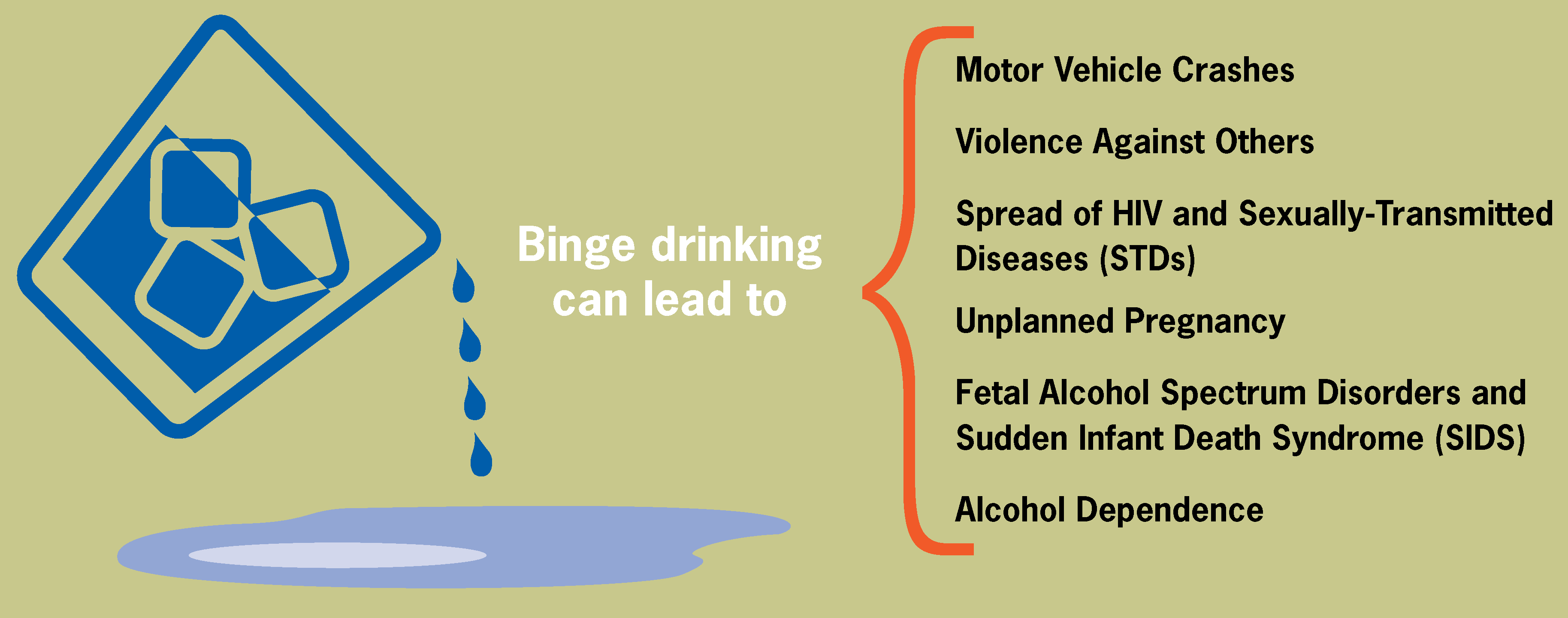 Binge drinking can lead to...